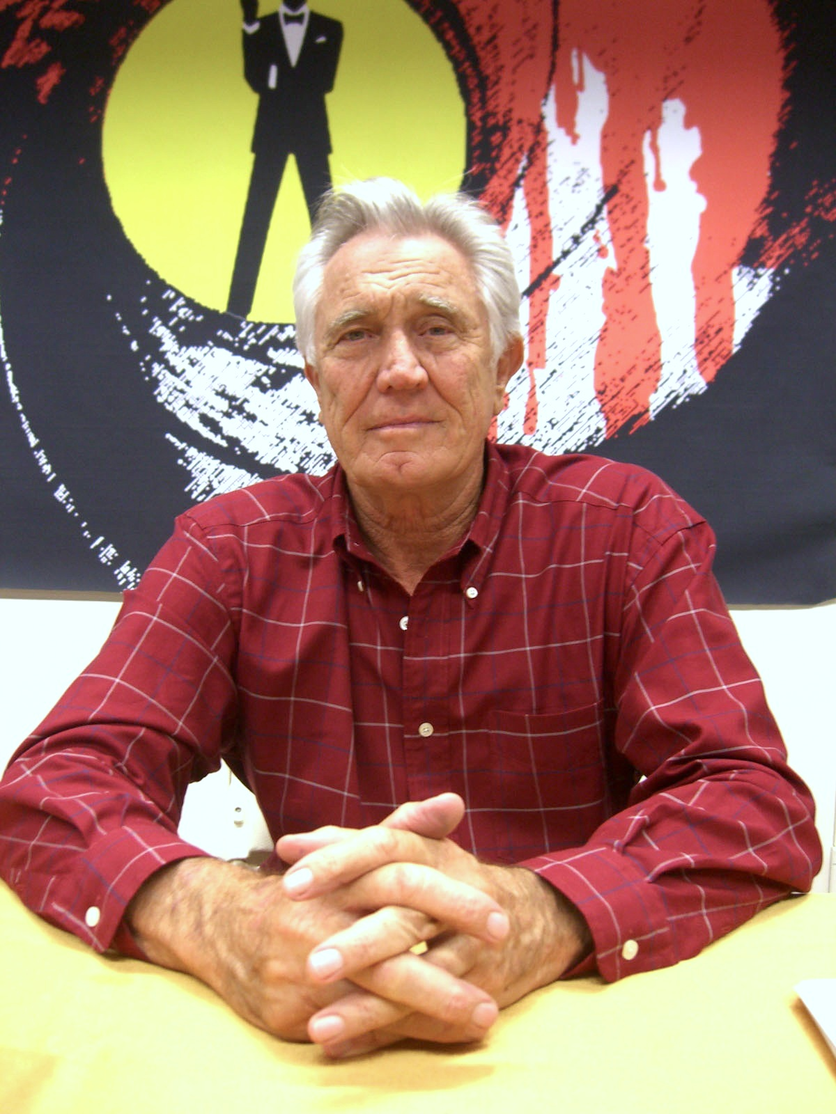 Actor George Lazenby at the November 2008 Big Apple Convention in Manhattan. This photo was created by Luigi Novi. It is not in the public domain, and use of this file outside of the licensing terms is a copyright violation.